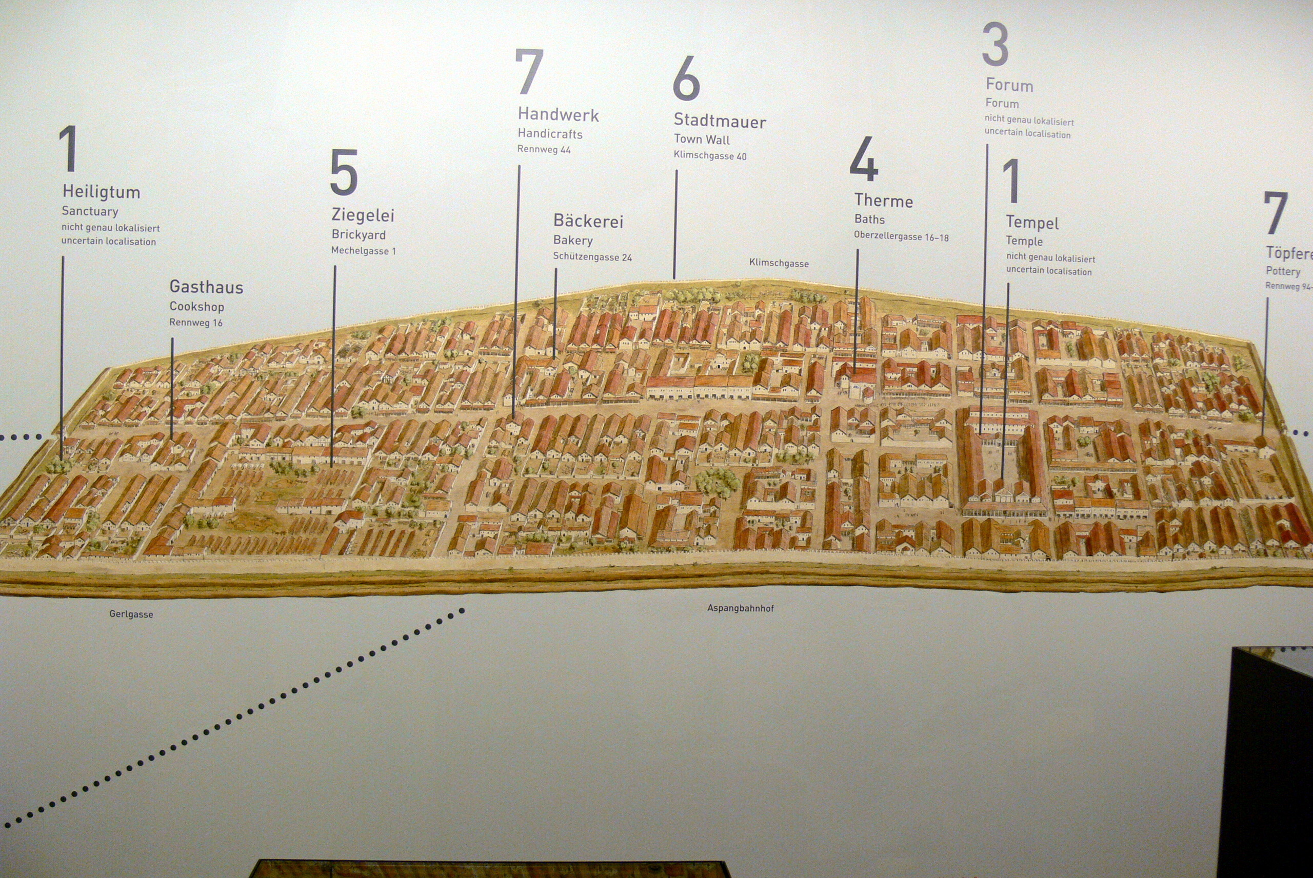 Roman Museum, Vienna. Reconstruction of Ancient Roman Vindobona.